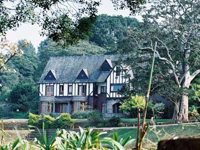 Front of the Great House, Thomas More College